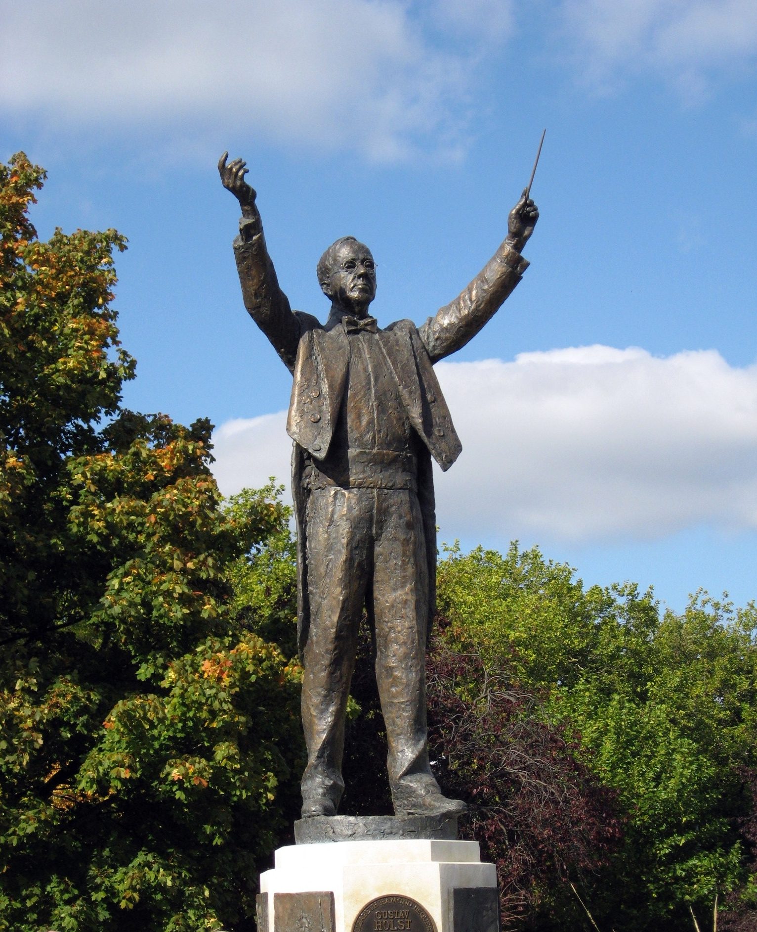 Statue of Gustav Holst in his home town of Cheltenham.